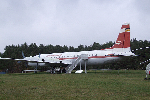 Ilyushin Il-18 at Hans-Grade-Museum in Borkheide